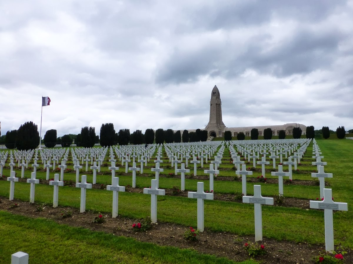 Verdun WWI cemetery, Douaumont ossuary on horizon is considered de minimis.